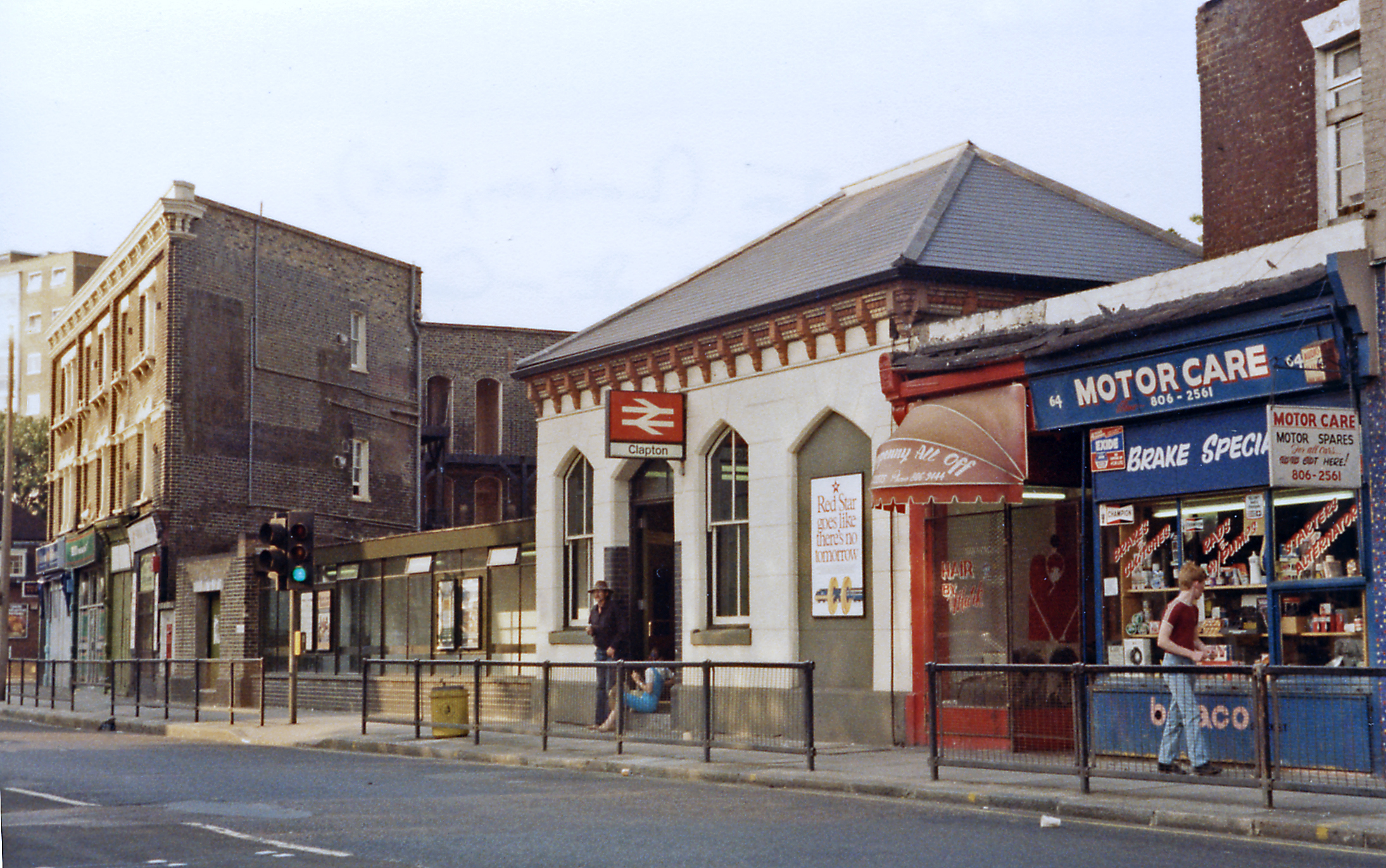 Entrance to Clapton station on Upper Clapton Road, 1984, View northward, the railway running below: ex-GE Liverpool Street - Hackney Downs (to left) - (to right) Walthamstow - Chingford.